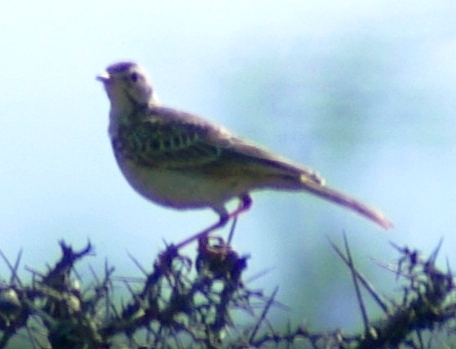 Adult African Pipit or Grassland Pipit, Anthus cinnamomeus lacuum, Sweetwaters Game Reserve, Kenya. The time stamp is 10 hours too early. Sharpened a bit.